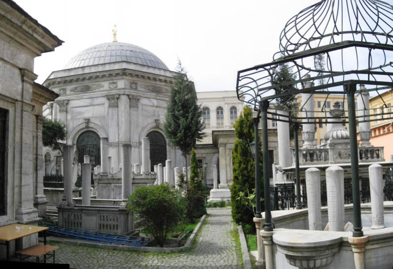 The mausoleum on the left (türbe) of Sultan Mahmud II (1785-1839), Sultan Abdülaziz (1830-1876) and Sultan Abdülhamid II (1842-1918), located at Divan Yolu street. Various other Ottoman tombs are located around it.